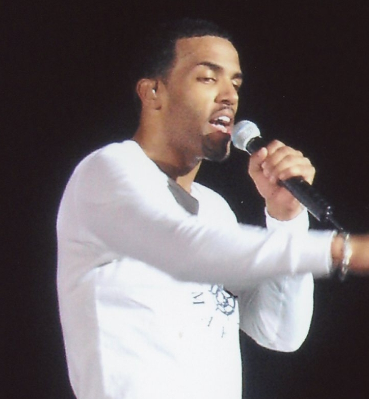 Craig David live at Hammersmith in 2006.